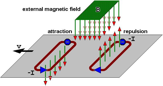 Braking effect of the magnetic fields created by eddy currents in a metal plate moving through an external magnetic field